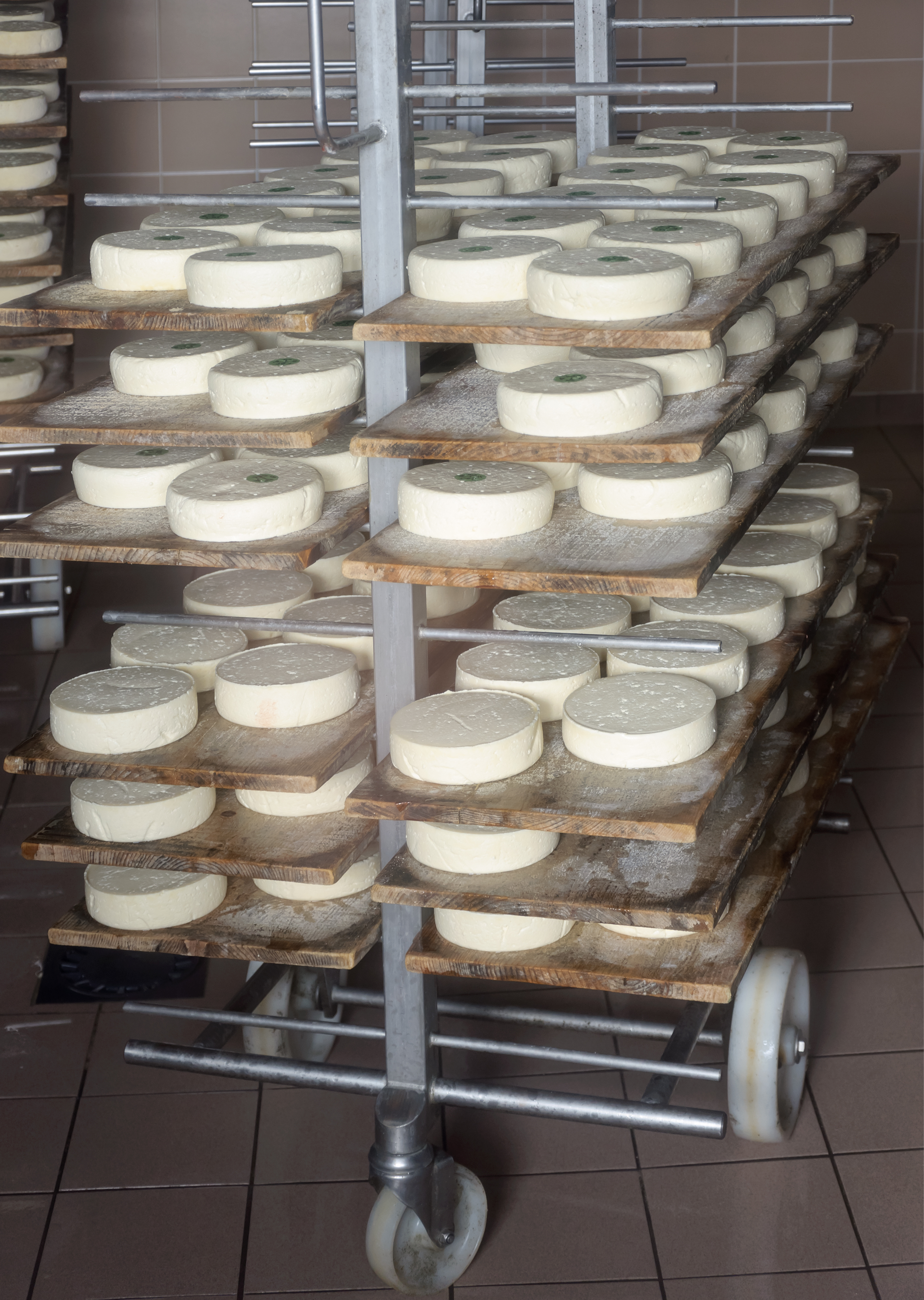 Farmhouse Reblochon, drying before ripening - Glières Plateau, Haute-Savoie, France.